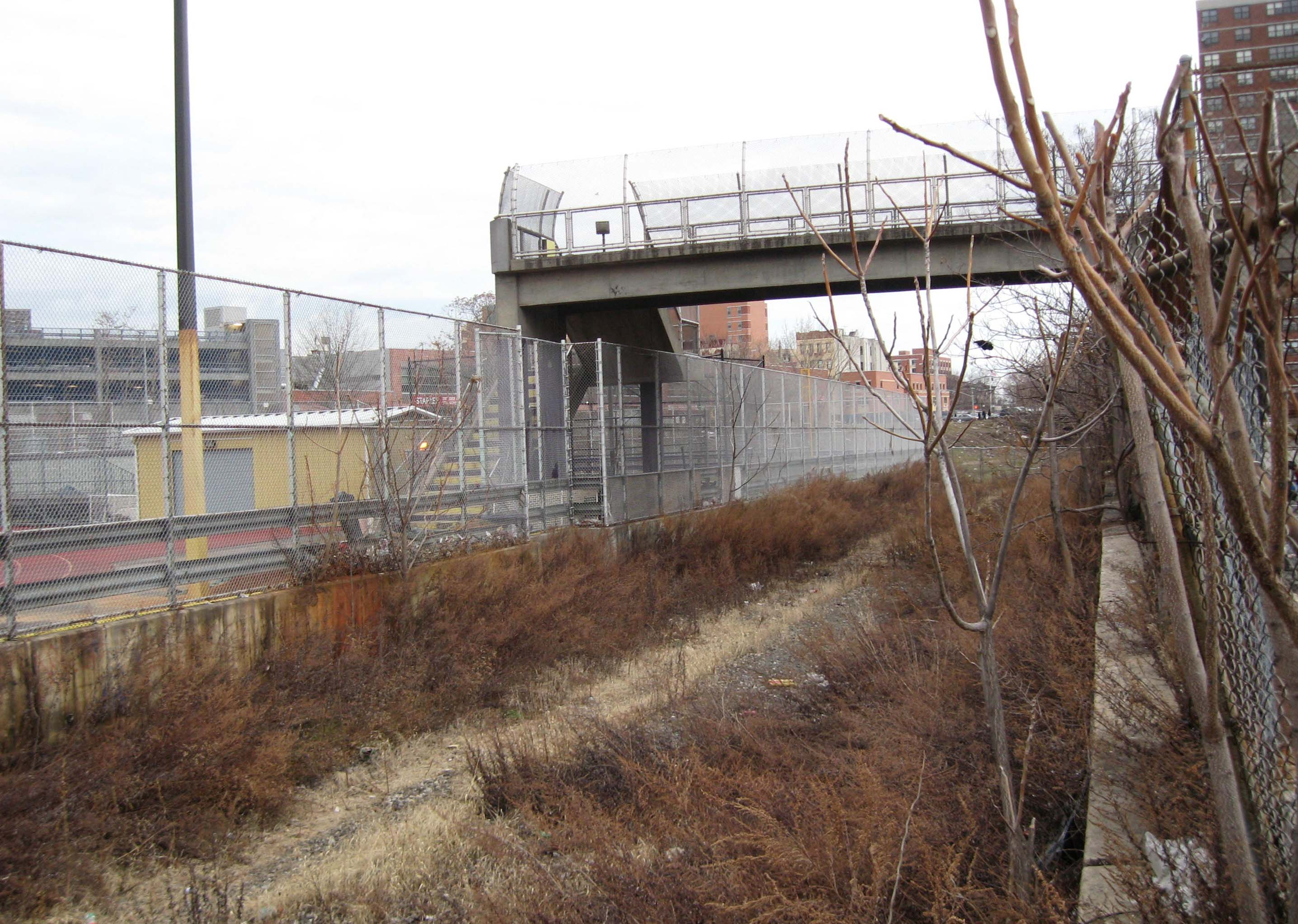 Looking north along former Port Morris Branch of New York and Harlem Railroad from the end of Rae Street, west of St Ann's Avenue, on a cloudy afternoon. See File:Melrose RR line jeh.JPG for a portion about a mile north.